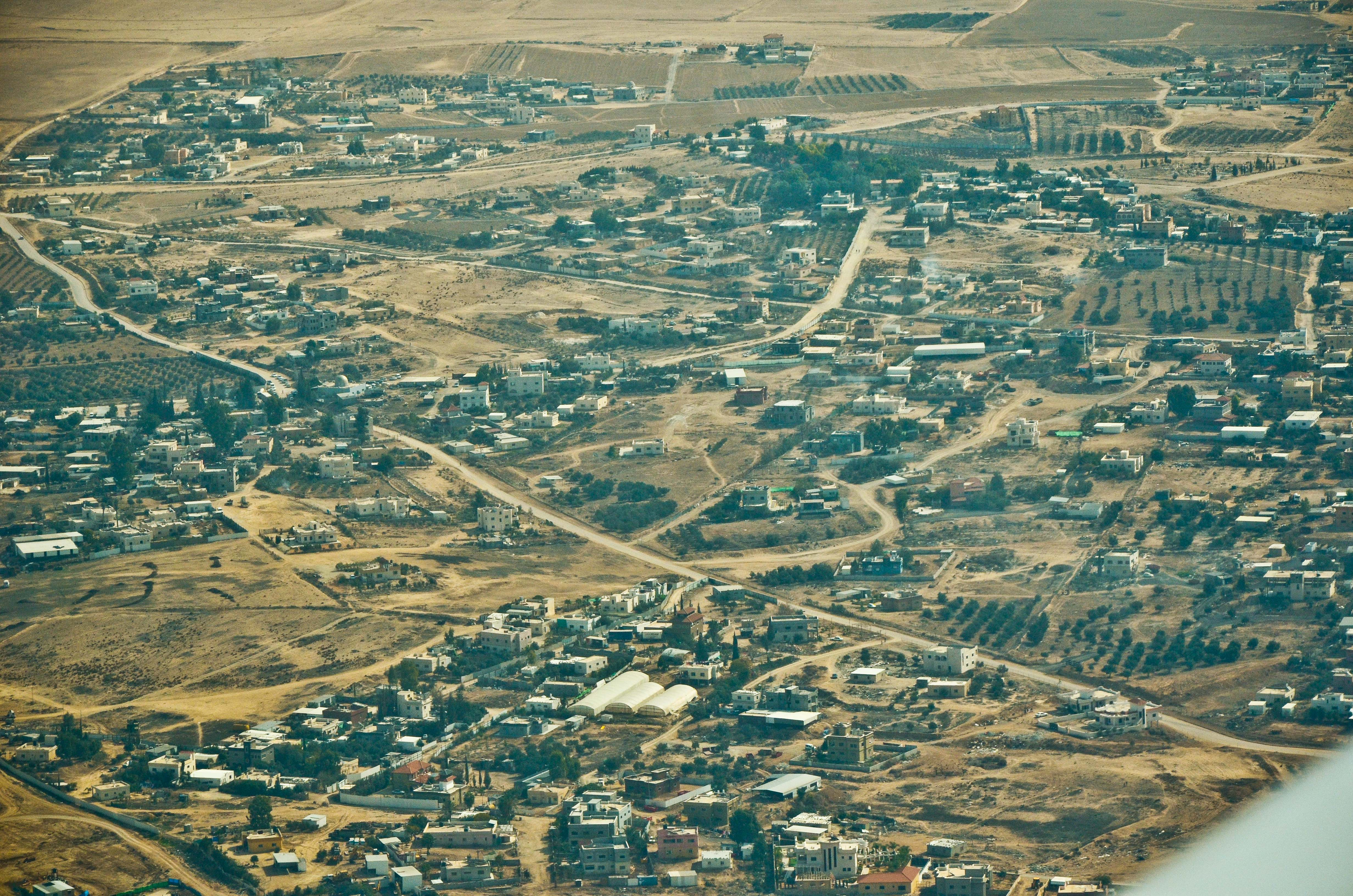 Shot from plane flown by Ilan maytal